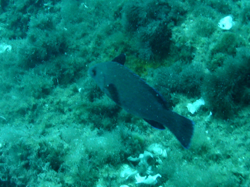 Labrus merula